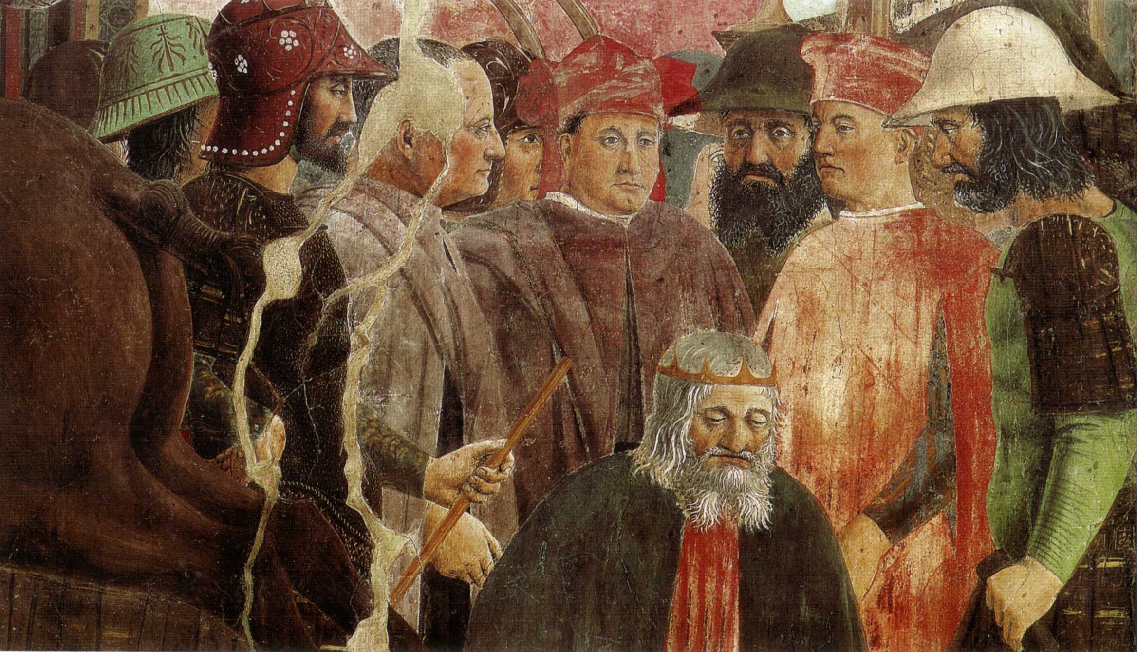 PIERO della FRANCESCA Battle between Heraclius and Chosroes Fresco, 329 x 747 cm San Francesco, Arezzo